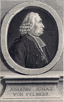 Johann Ignaz von Felbiger (1724-1788) was a German educational reformer, pedagogical writer, and canon regular of the Order of St. Augustine.